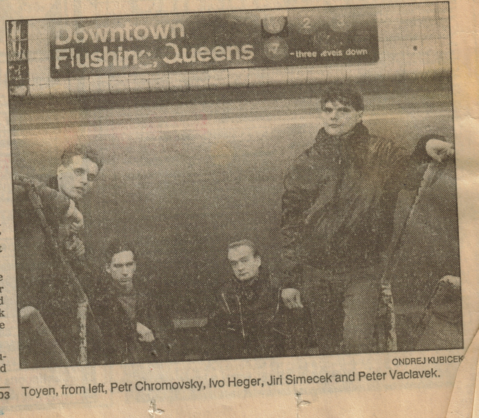 promo interwiev with Toyen 1991/11